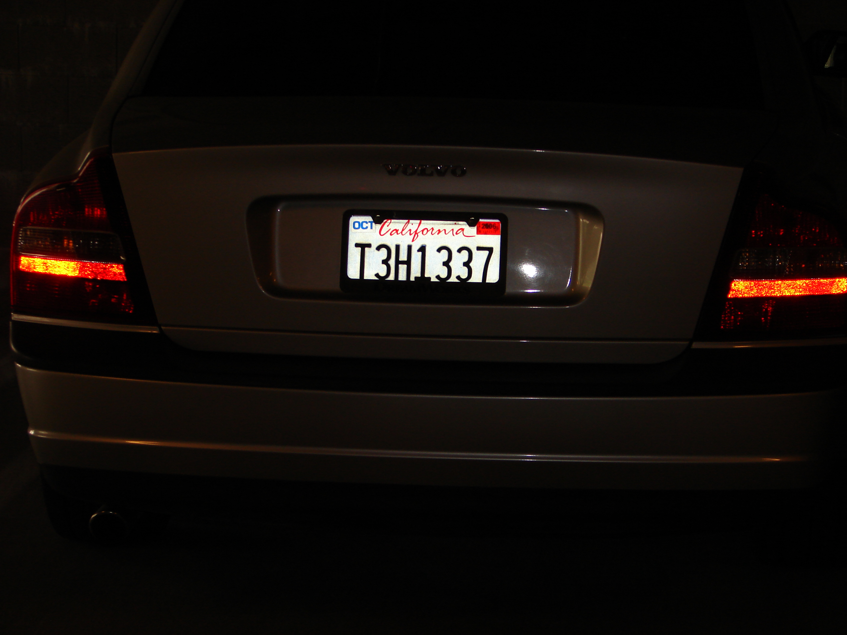 A California license plate in leet.